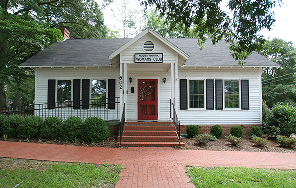 Fuquay-Varina Woman's Club Clubhouse built in 1936. Listed on the National Register of Historic Places.